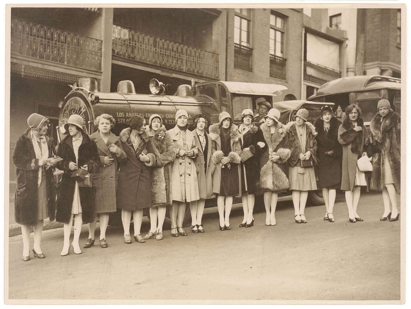 36. American women's jazz band "Ingenues", in front of Metro Goldwyn Meyer promotional vehicle for Ben Hur, 'world's first trackless train", Sydney, ca. 1928, Sam Hood, Hood Collection part II, Theatrical, Cinema; people, films and theatres, ca. 1920-ca. 1950, PXE 789 (v.56)